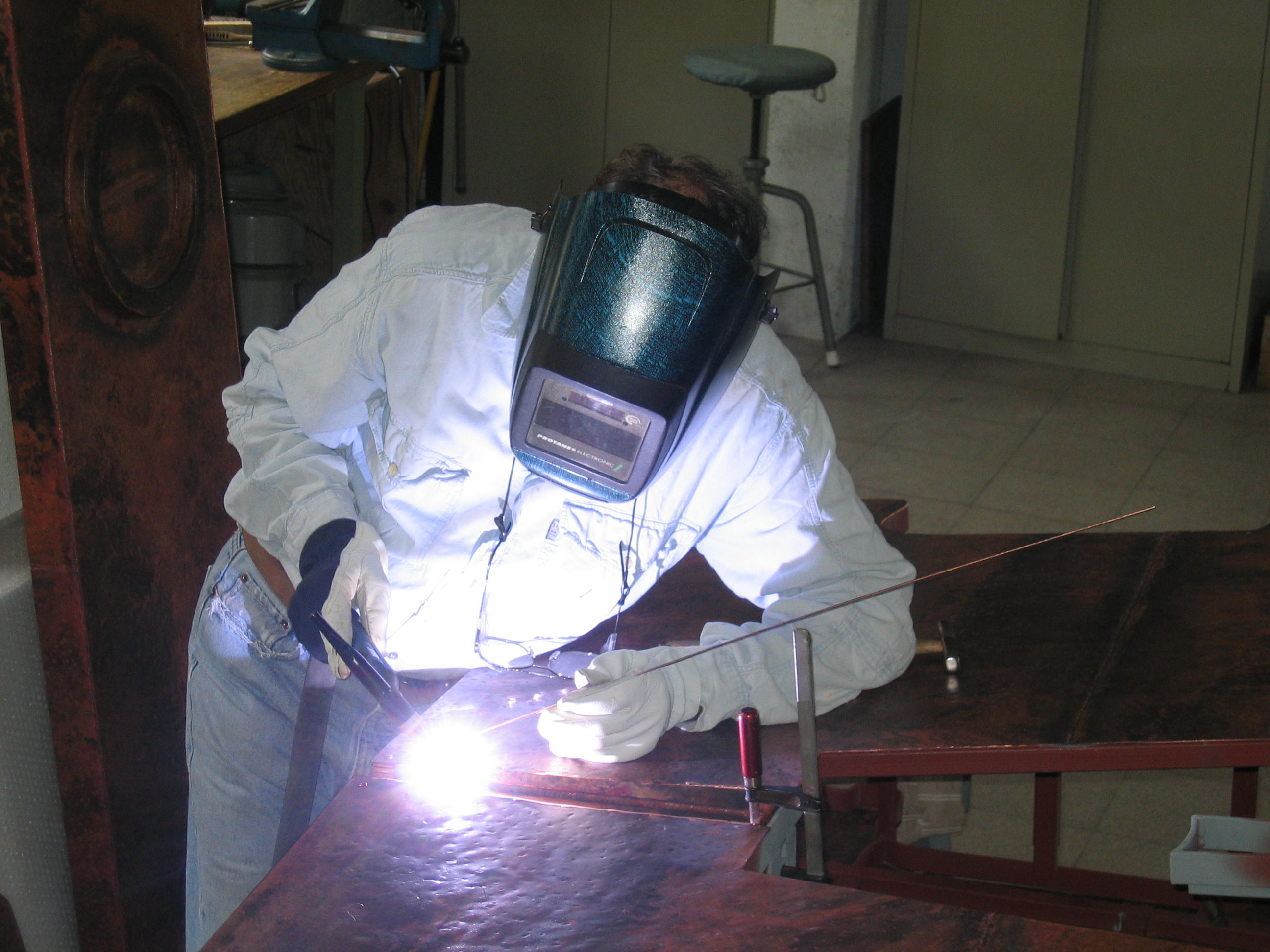 The Belgian artist Hubert Minnebo during TIG welding of a monumental sculpture